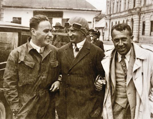 Henryk Szatkowski (left) from Nazi German Goralenvolk action, partying with his collegues in Zakopane, late 1930s